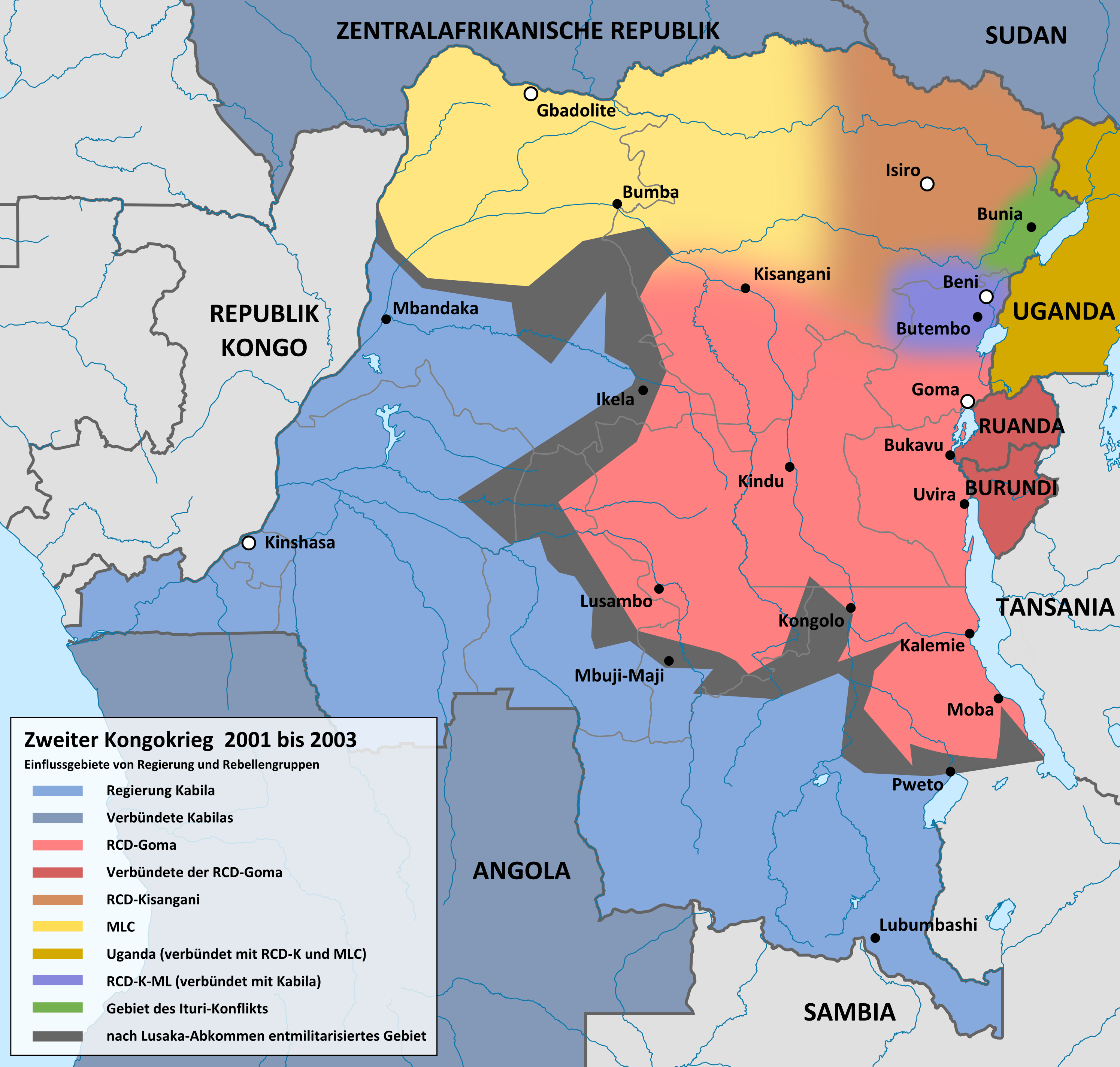 Map of Second Congo War, 2001-2003. Sources: German article Zweiter Kongokrieg and its sources Jason Stearns: Dancing in the Glory of Monsters. The Collapse of the Congo and the Great War of Africa. Public Affairs, 2011, ISBN 978-1-58648-929-8. Map of MONUC